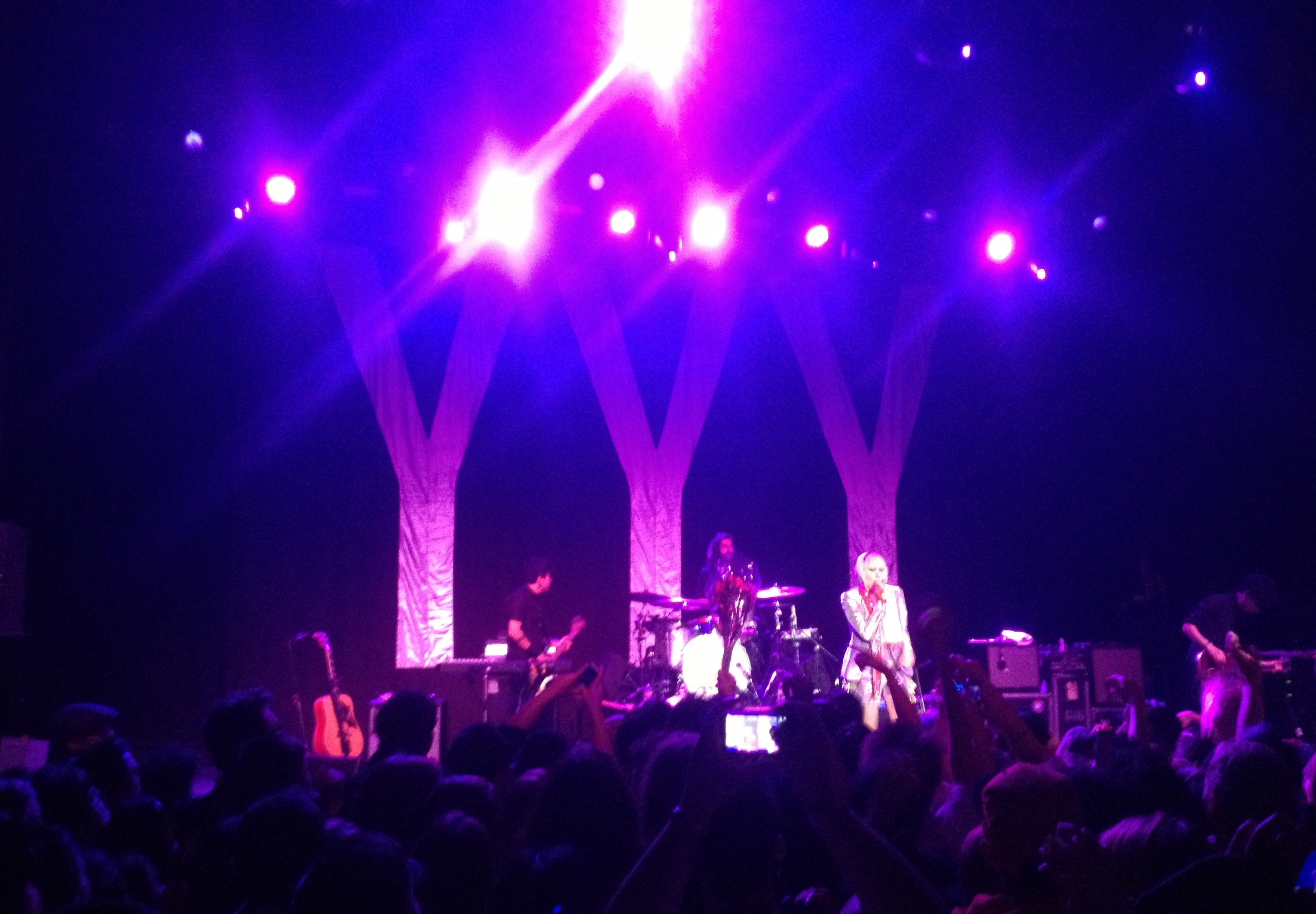 The Yeah Yeah Yeahs playing in Ventura, California on April 16, 2013